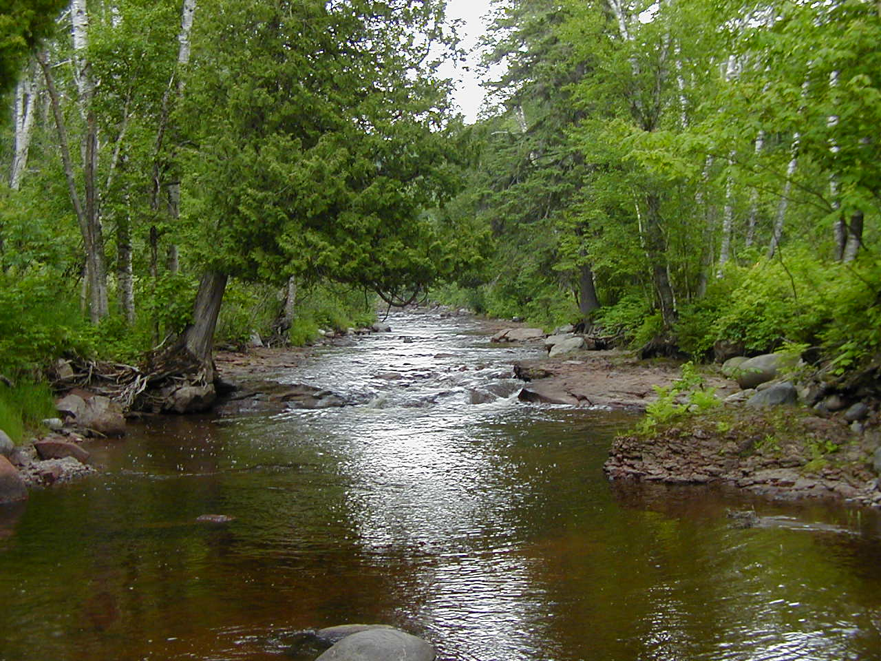 Taken by Pete Nelson, on the Superior Hiking Trail. Looking upstream on the Caribou River.